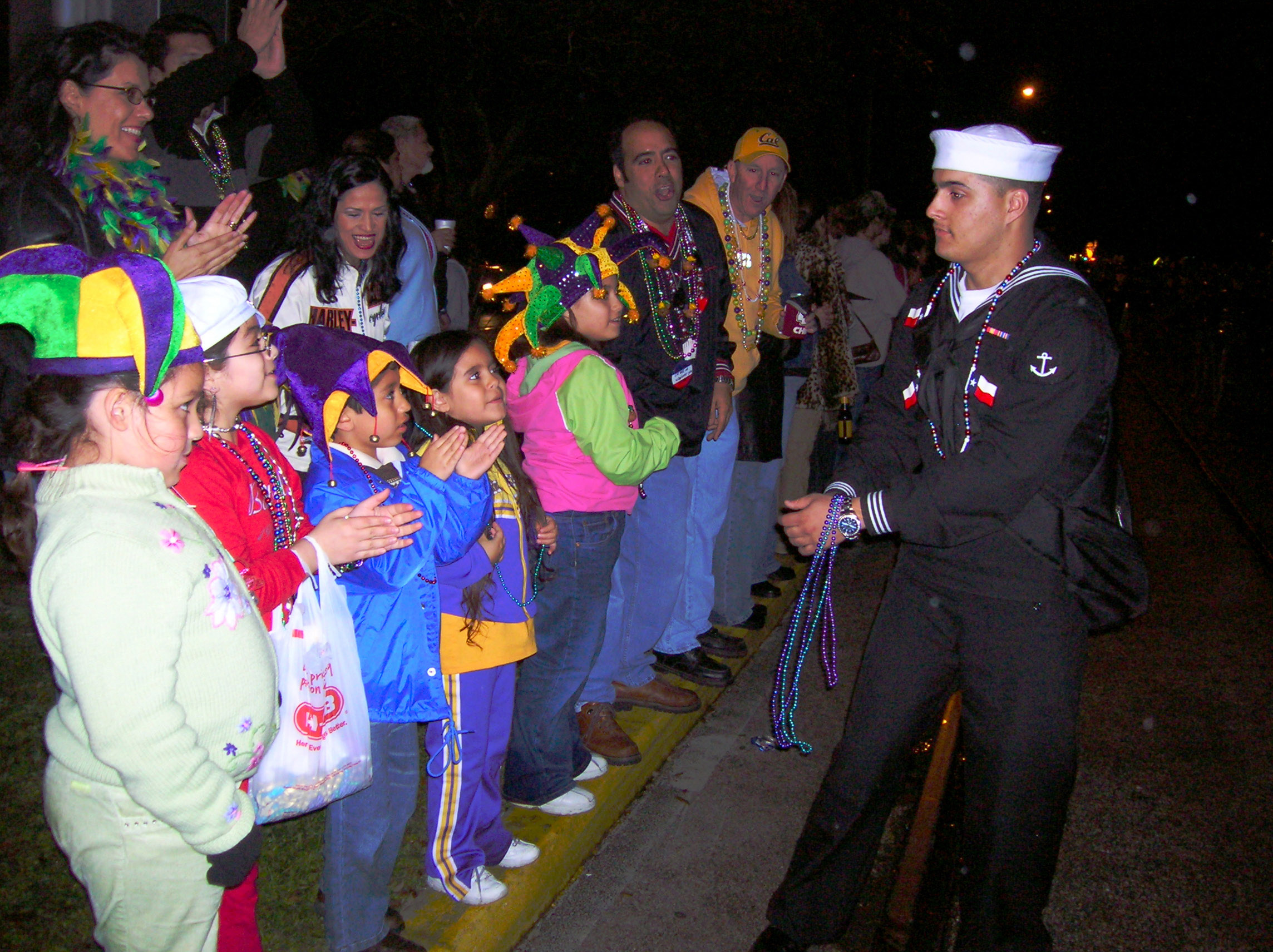 Galveston, Texas (Feb. 25, 2006) - Seaman Recruit Zachary D. Lyons, assigned to the amphibious transport dock ship USS Trenton (LPD 14) gives beads to cheering spectators along the Krewe of Momus Mardi Gras parade route. Trenton and her crew were honored guests for Mardi Gras festivities during Navy Week Galveston. Twenty such weeks are planned this year in cities throughout the U.S., arranged by the Navy Office of Community Outreach (NAVCO). NAVCO is a new unit tasked with enhancing the Navy's brand image in areas with limited exposure to the Navy.U.S. Navy photo by Chief Journalist Maria R. Escamilla (RELEASED)